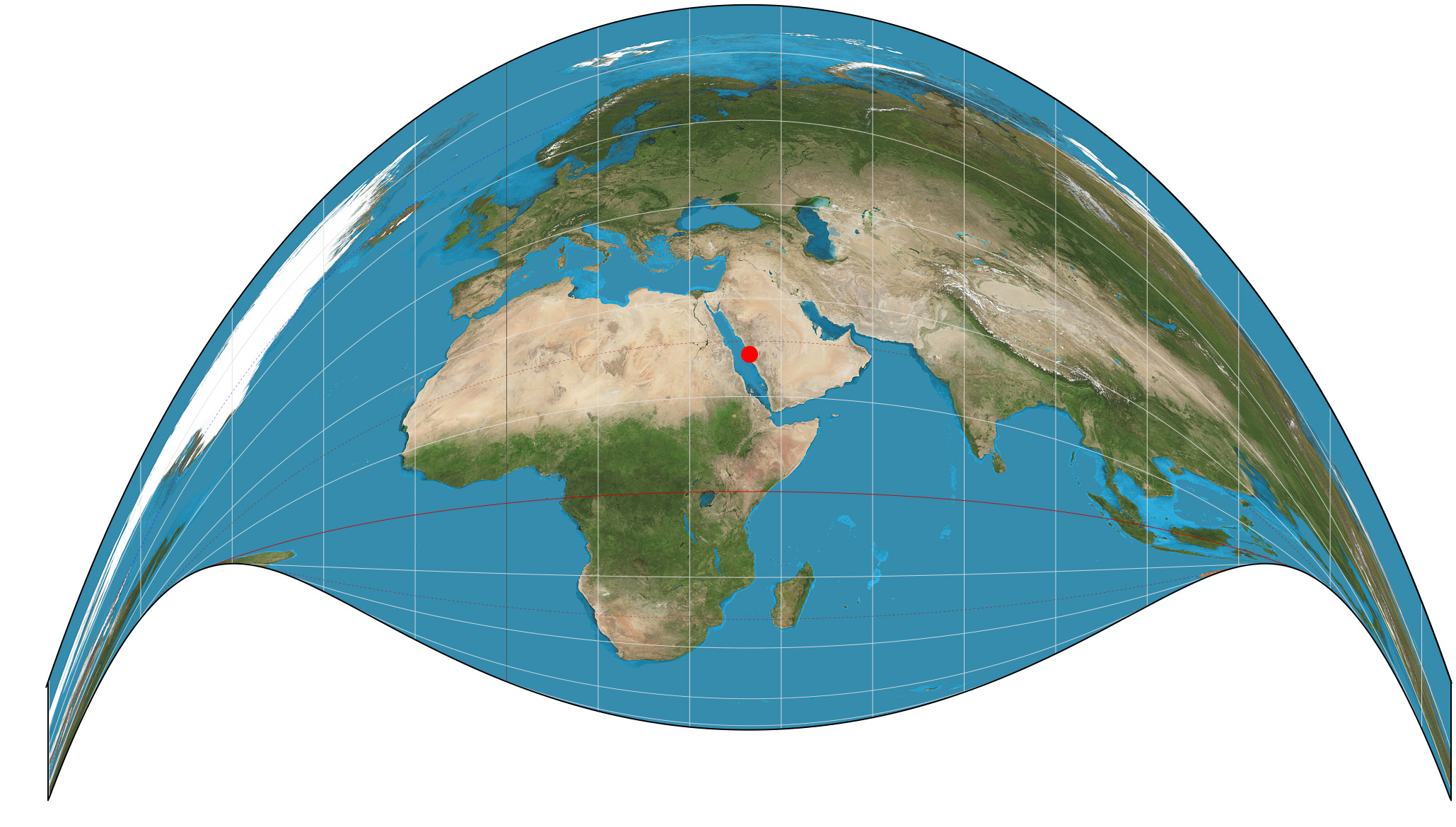 Part of the world on Craig retroazimuthal projection. 15° graticule, central meridian 39°49'E, center latitude 21°25'N (Mecca). Imagery is a derivative of NASA’s Blue Marble summer month composite with oceans lightened to enhance legibility and contrast. Image created with the Geocart map projection software.